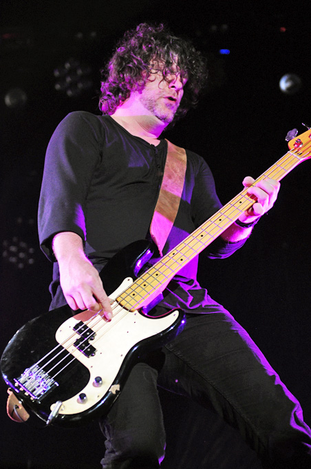 Ben Shepherd of Soundgarden performing live at Big Day Out Festival 2012.